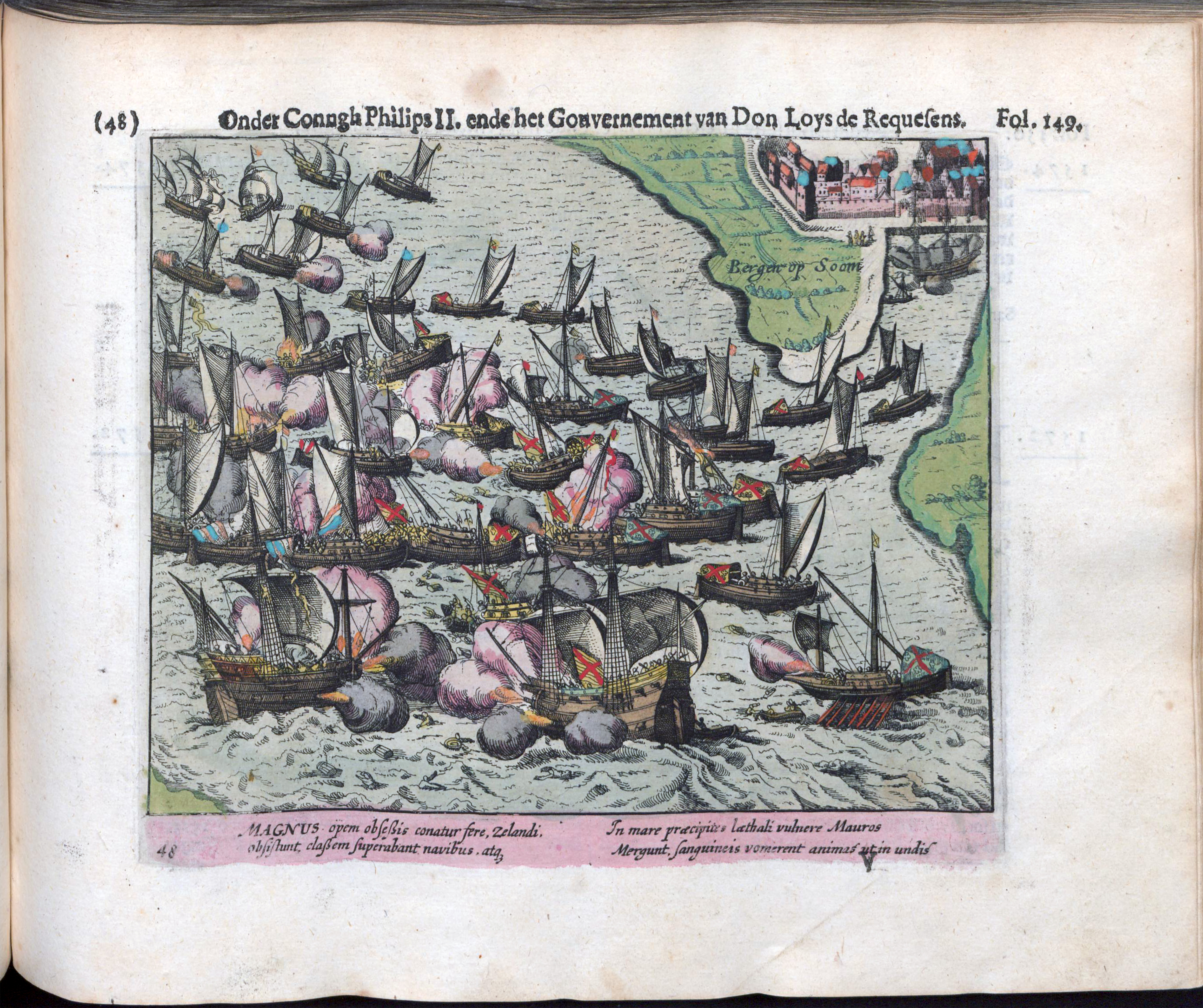 Ship Battle near Bergen op Zoom